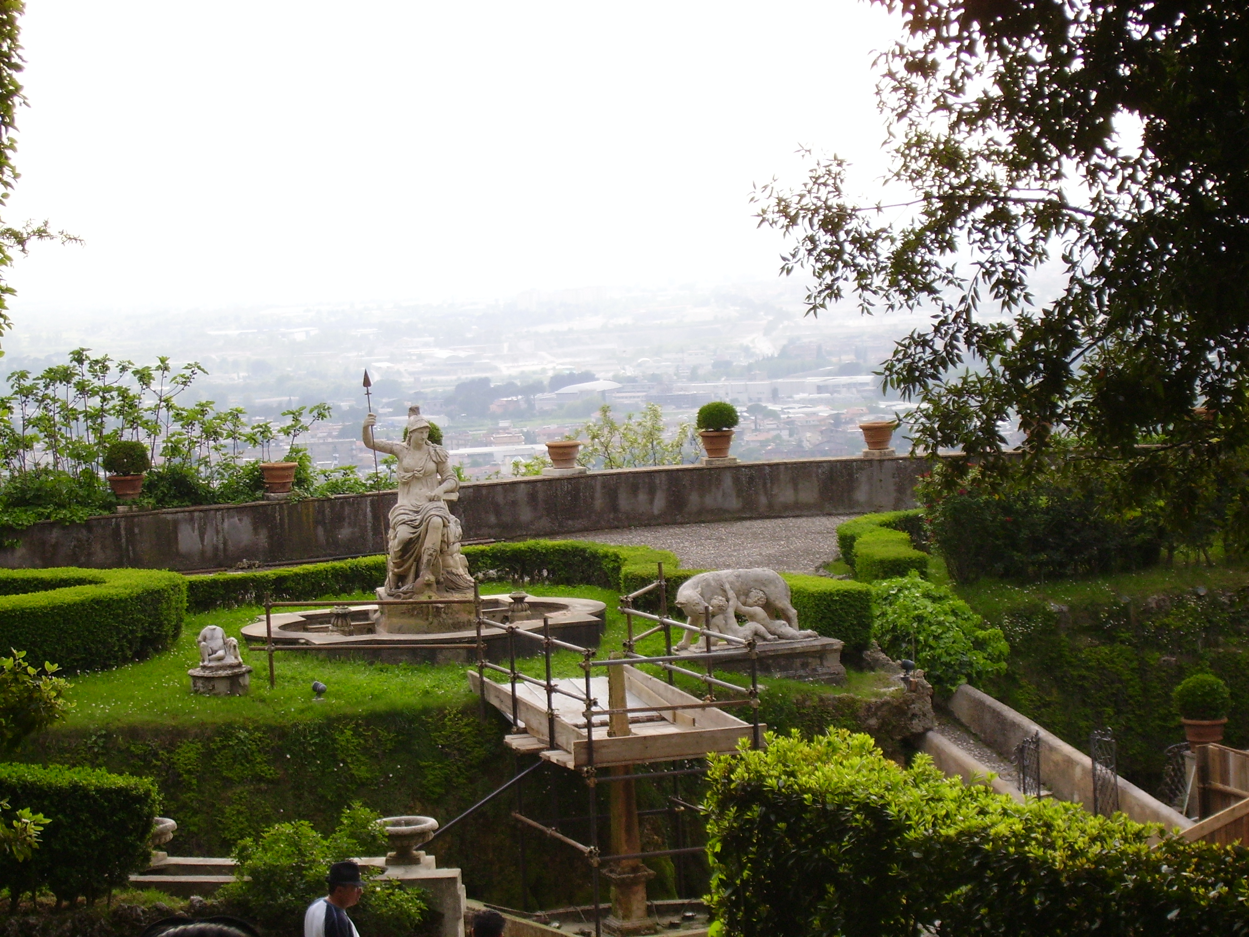 Parts of Fountain of Rome, includes: Statue of the wolf and Romulus and Remus, Minerva and another statue at Villa d'Este (Tivoli)